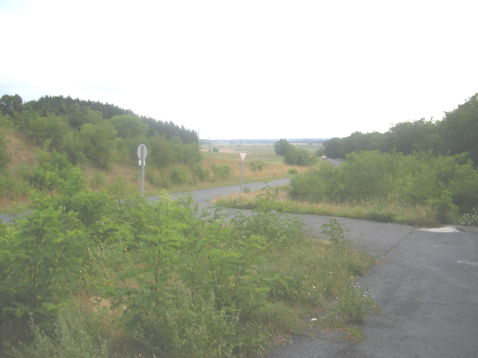 Landscape between Bejcgyertyános and Kám